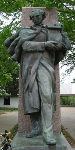 Monument honoring George C. Childress, principal author of the Texas Declaration of Independence, at Washington-on-the-Brazos State Historic Site in Washington, Texas, United States. Sculptor Raoul Josset created the monument for the 1936 Texas Centennial. Photograph by J. Williams (Mar. 29, 2003).